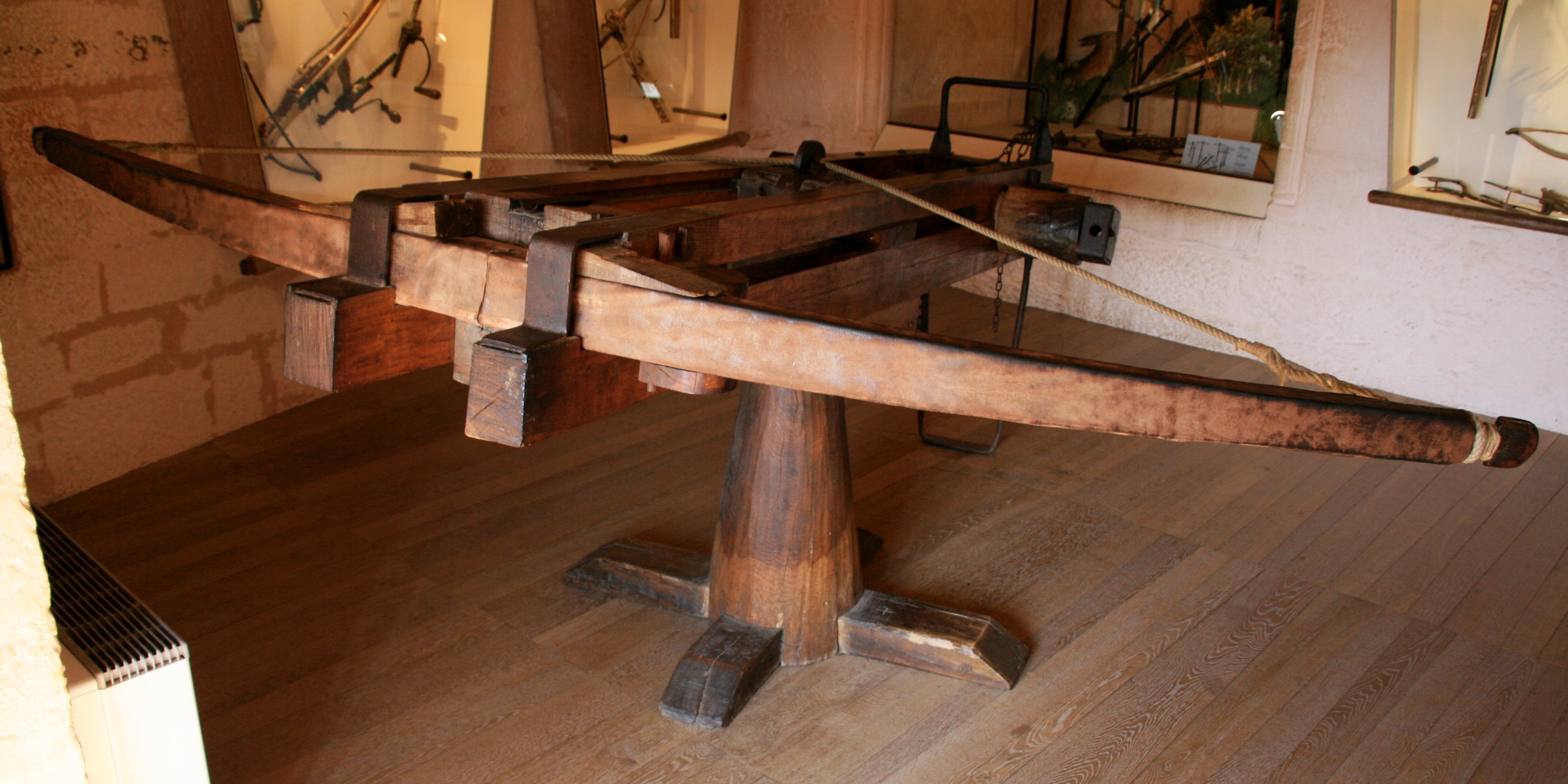 Reconstruction of a siege crossbow in the Château de Castelnaud, Castelnaud-la-Chapelle, Dordogne, Aquitaine, France.